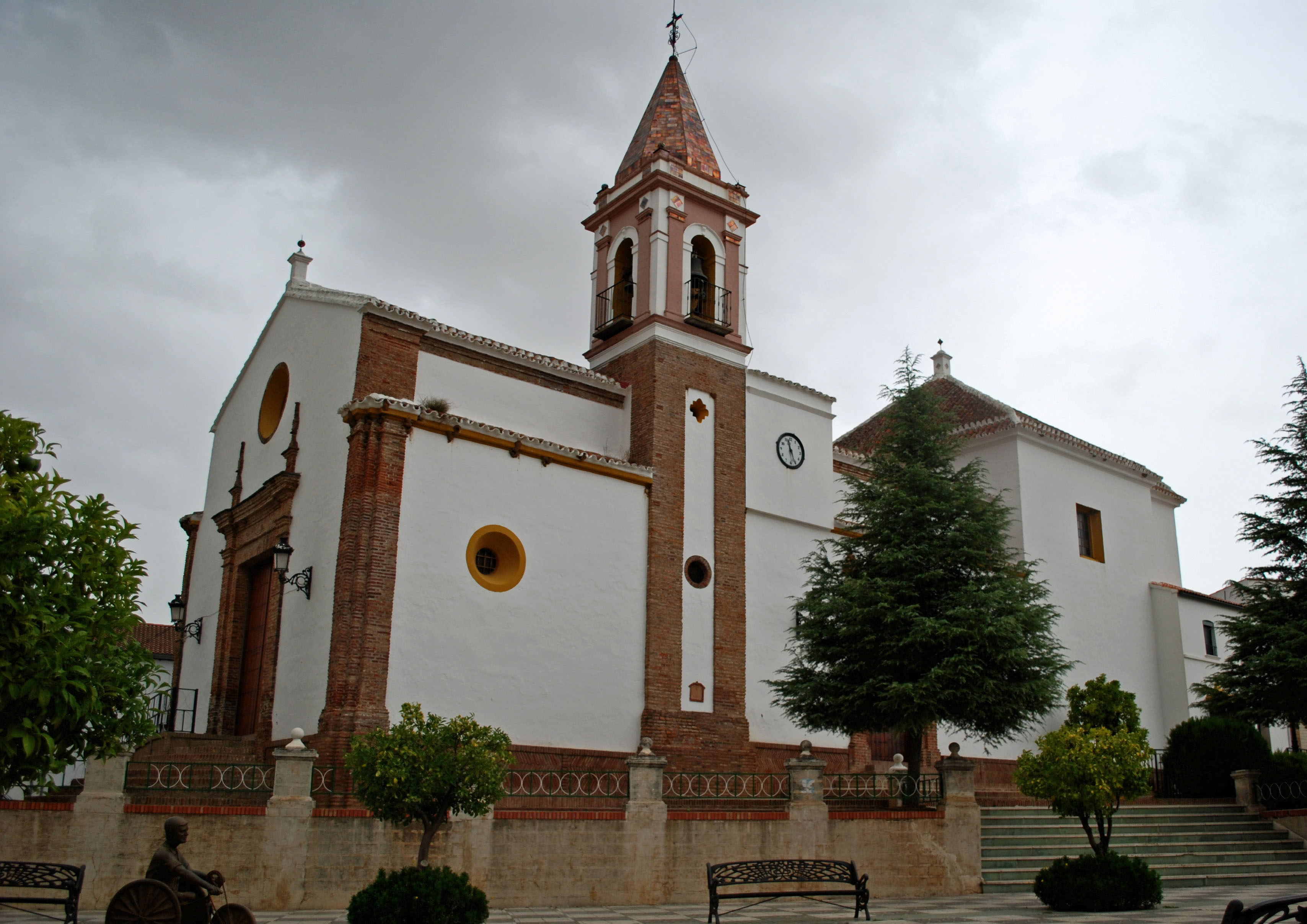 Church of Purísima Concepción in Navas de la Concepción, province of Seville, Spain